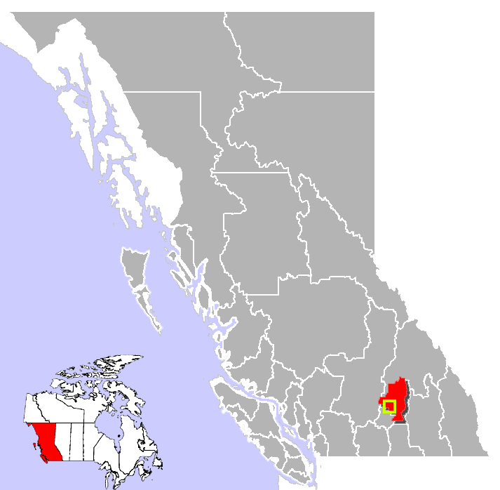 Vernon, British Columbia location.